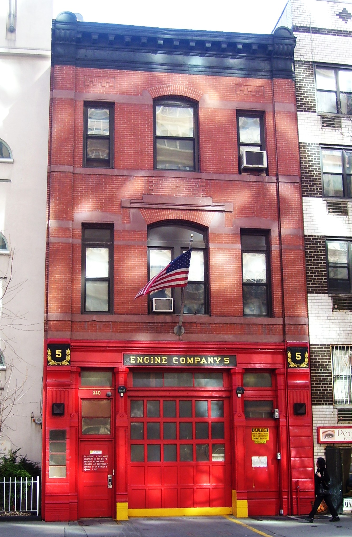 Engine Company 5 of the Nw York City Fire Department, located at 340 East 14th Street between First and Second Avenues in the East Village neighborhood of Manhattan, New York City. The company was organized in 1881, the current building dates from 1920. (Sources: "Engine 5 Manhattan" on , and NYC GIS map)